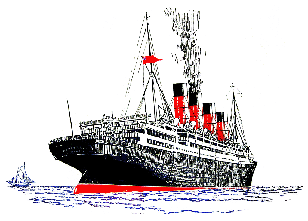 RMS Aquitania Mural. Brian.Burnell, the copyright holder of this work, hereby publishes it under the following license: Attribution: Brian.Burnell